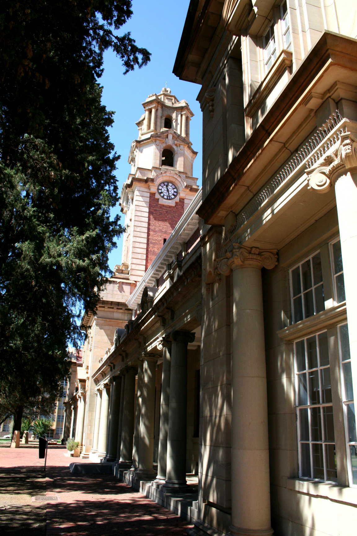 Entrance of NALN showing the tower, previously known as the Old Government Building This media shows a South African Protected Site with SAHRA file reference 9/2/302/0028.